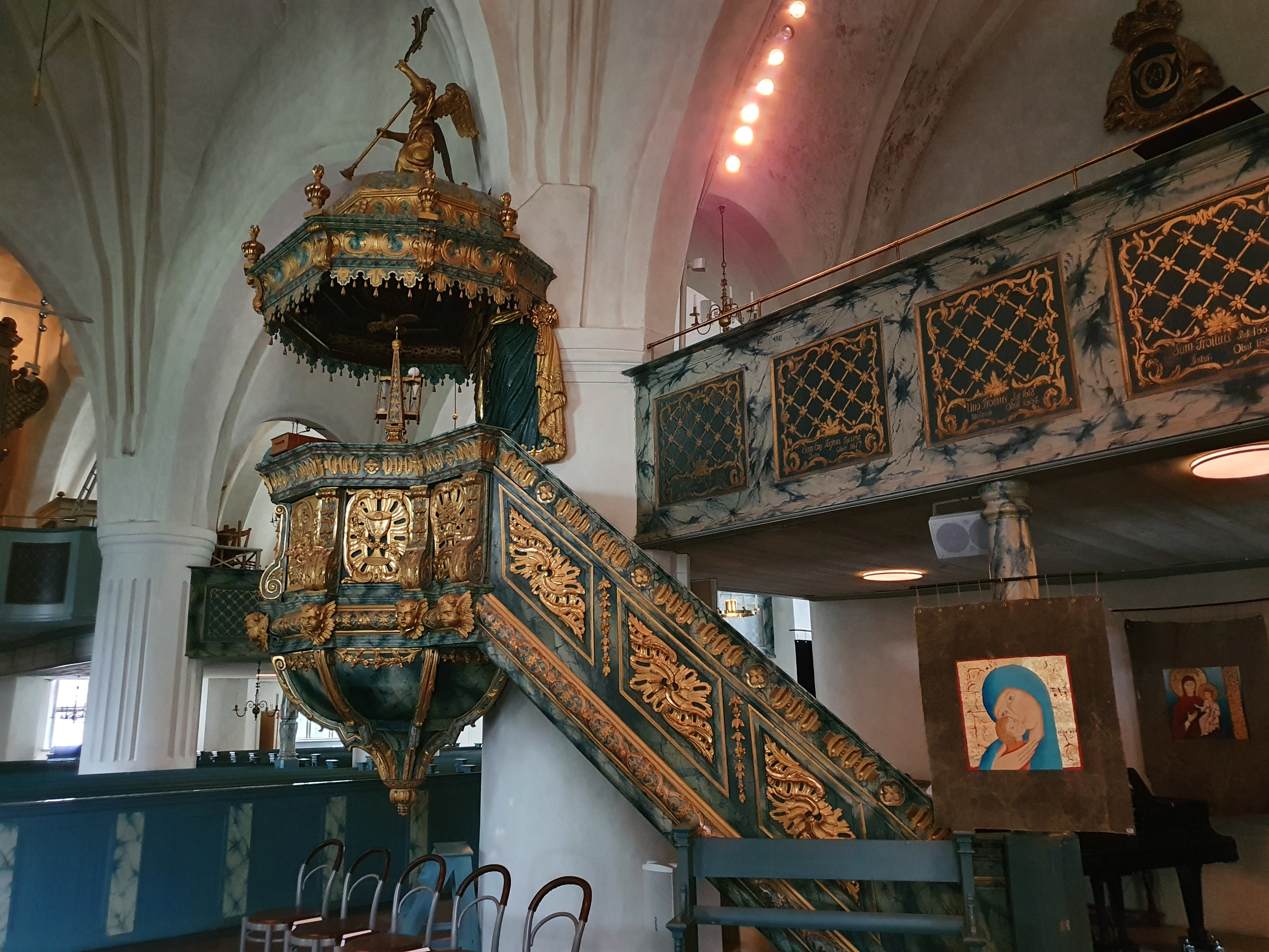 The pulpit in Leksand Church.